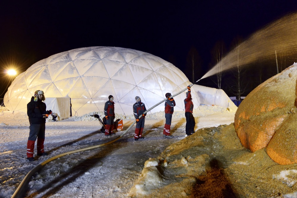 A pykrete ice dome is built in Juuka, Finland, by a team from Eindhoven University of Technology.